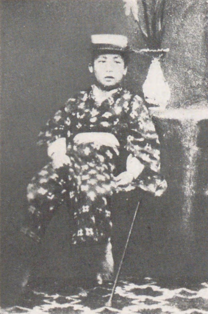 Natsume Soseki in 11-12 years old (1879-1880).